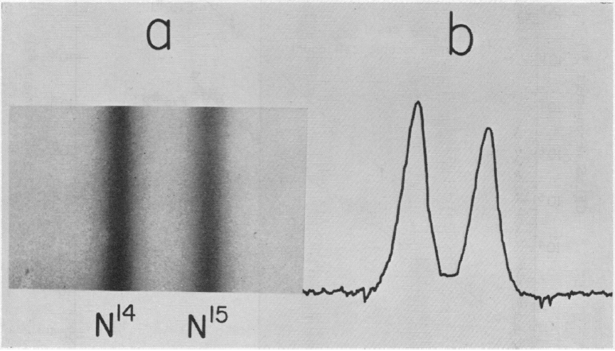 Erinevate N-isotoopidega DNA-d on erineva tihedusega. Joonisel näidatud DNA-de koondumine erinevatesse tasakaalulistesse punktidesse